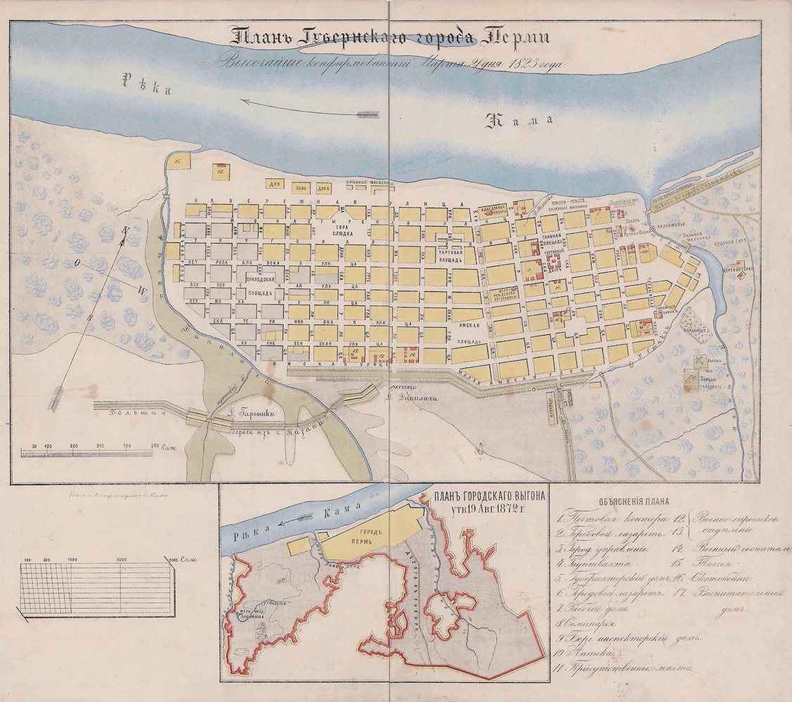 Map of Perm (1823)